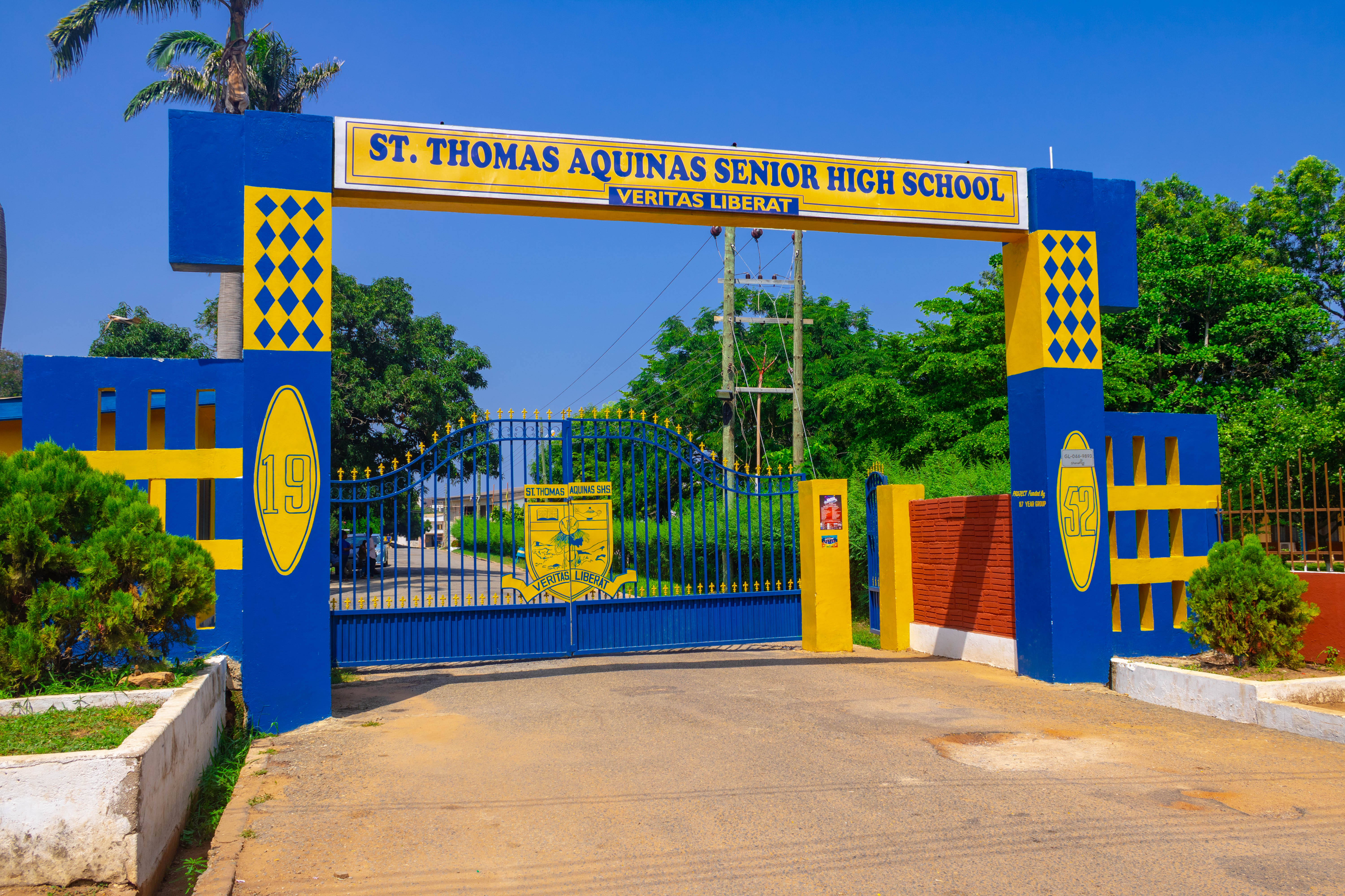 The front view of the St. Thomas Aquinas senior high school in Ghana